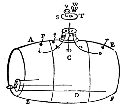 The earliest known example of the "Inexhaustible Bottle" trick, described in this 1635 collection of magic tricks, Hocus Pocus Junior